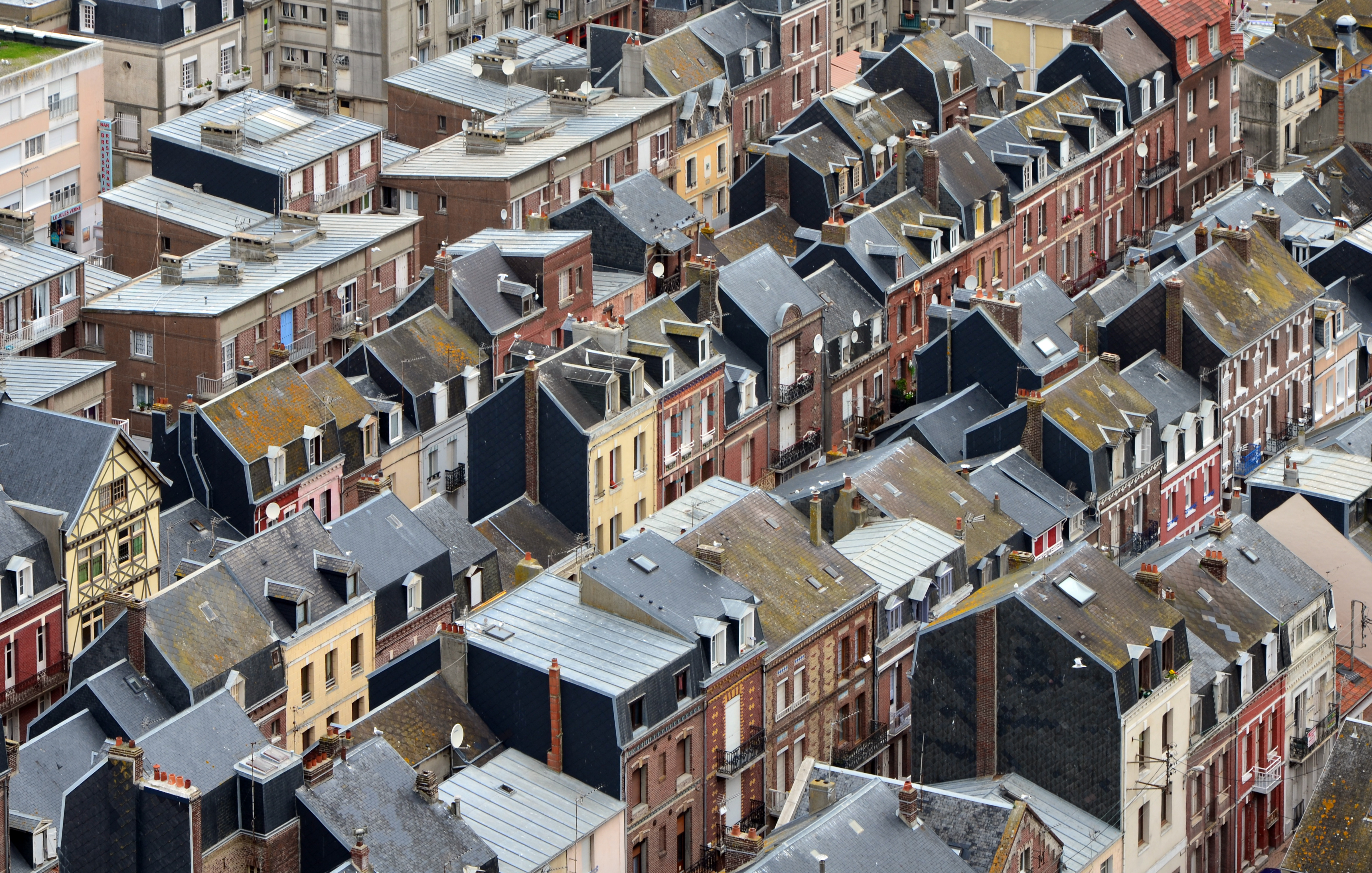 Le Tréport (Normandy, France) from the cliffs above